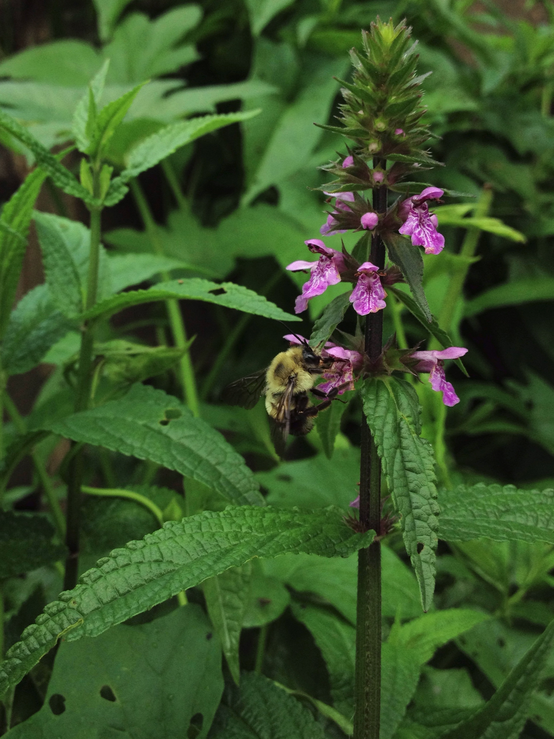 Photo of Stachys tenuifolia in flower. This is a native plant growing wild in River Bend Park, Fairfax county Virginia, USA. This species is a member of the Lamiaceae family.